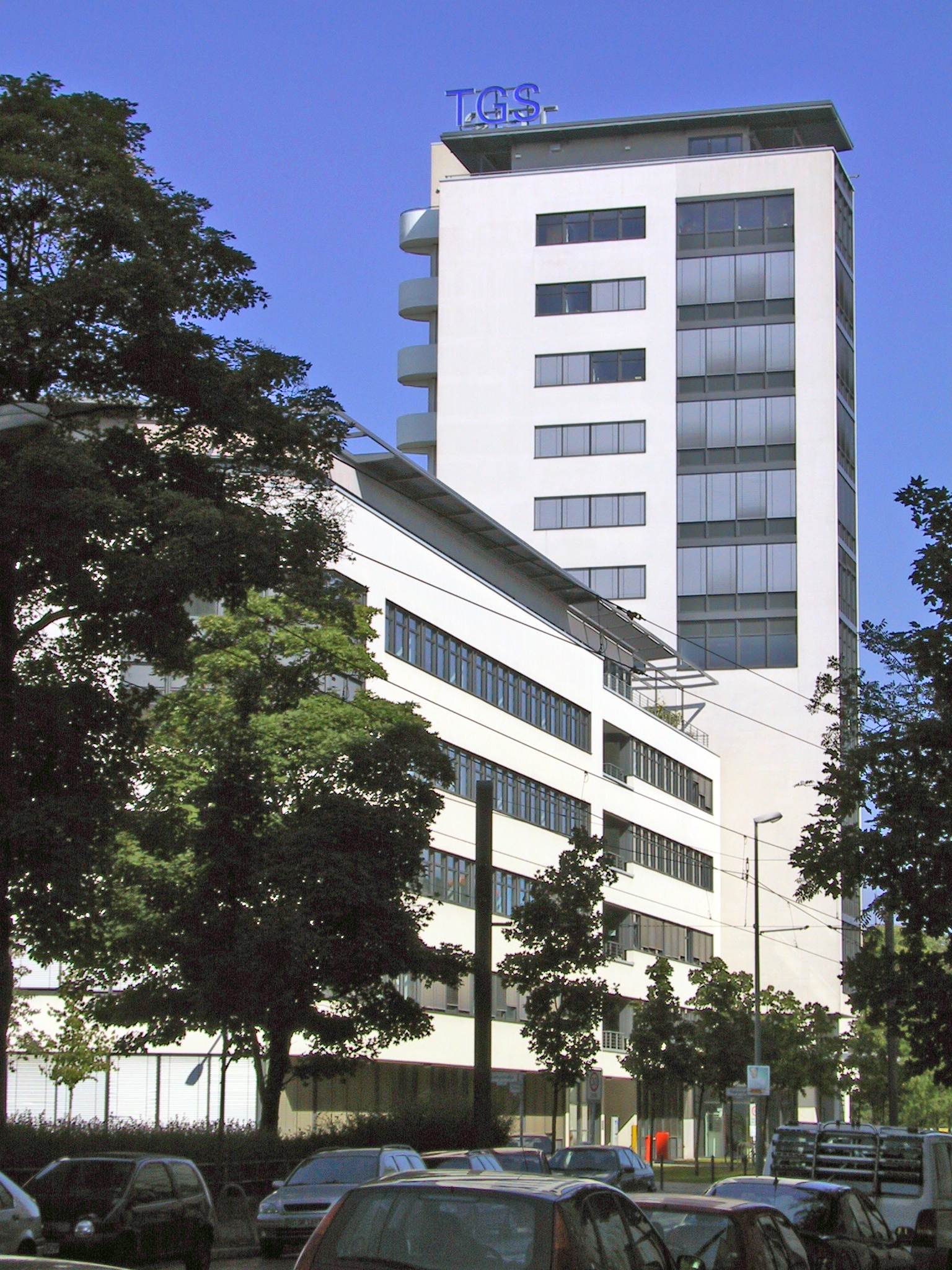 Technology and business incubator (TGS) in Oberschöneweide localitie of Berlin.